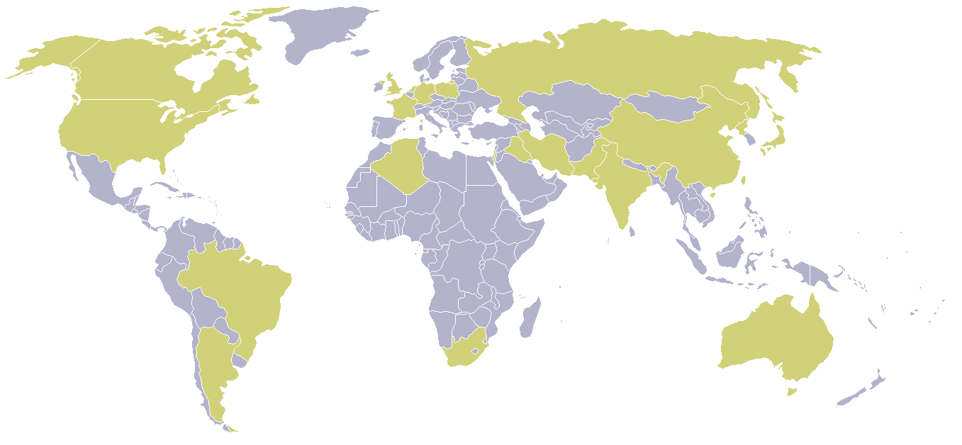 Weapons of mass destruction by country.